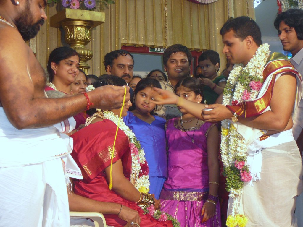 Two symbols of the married woman: The groom applies sindoor (red powder) to the bride's forehead while a priest hands him the thali (marriage necklace).